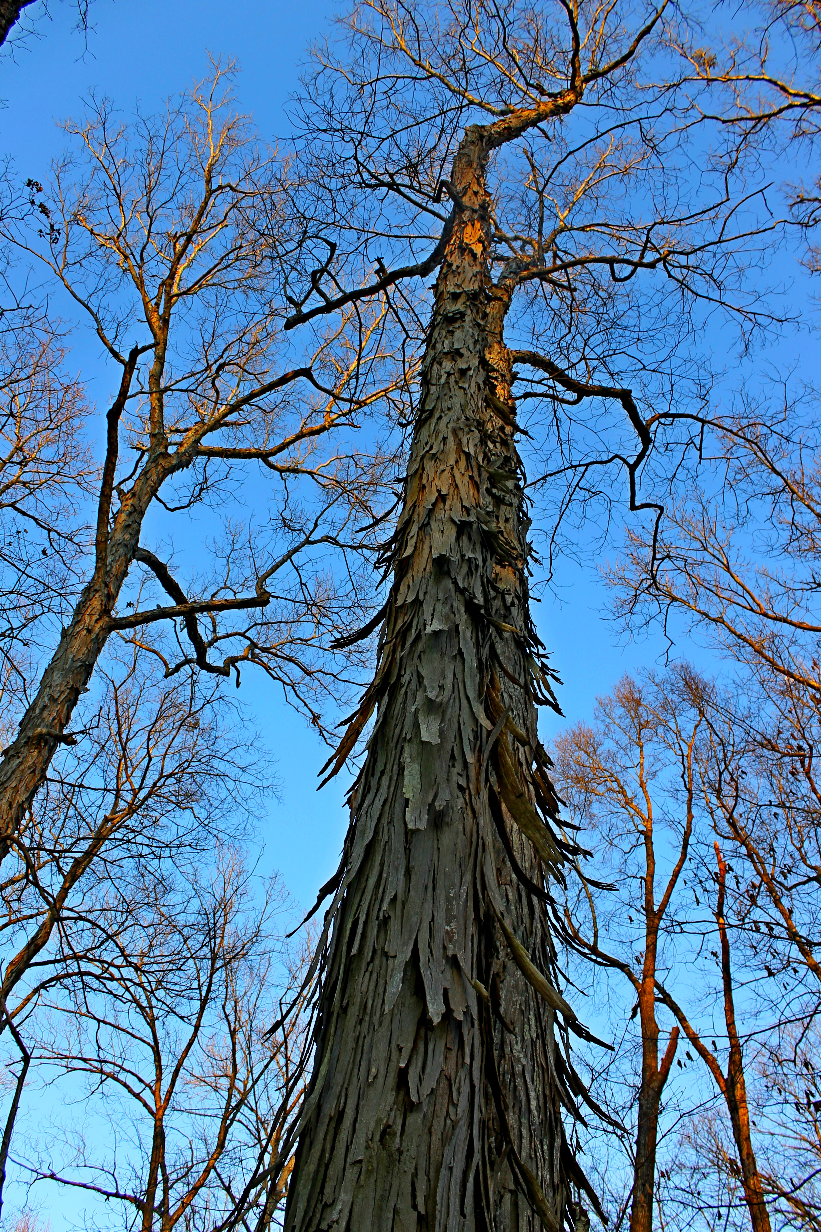 Carolina Hickory located in Uwharrie National Forest